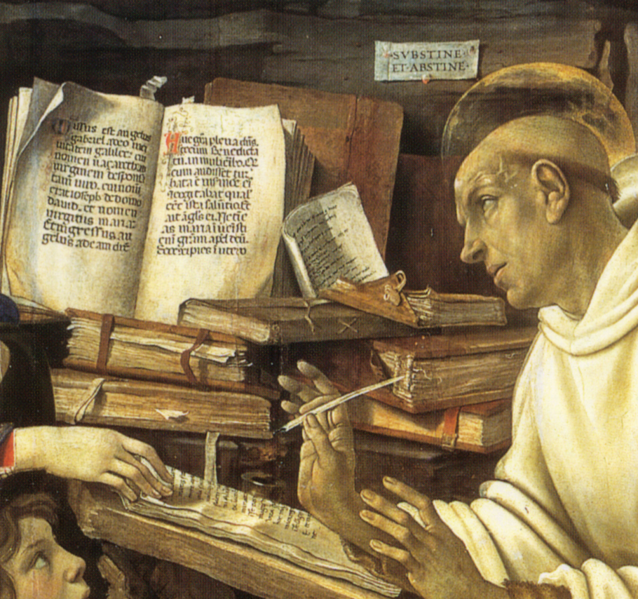 LIPPI, Filippino Apparition of The Virgin to St Bernard Oil on panel, 210 x 195 cm Church of Badia, Florence